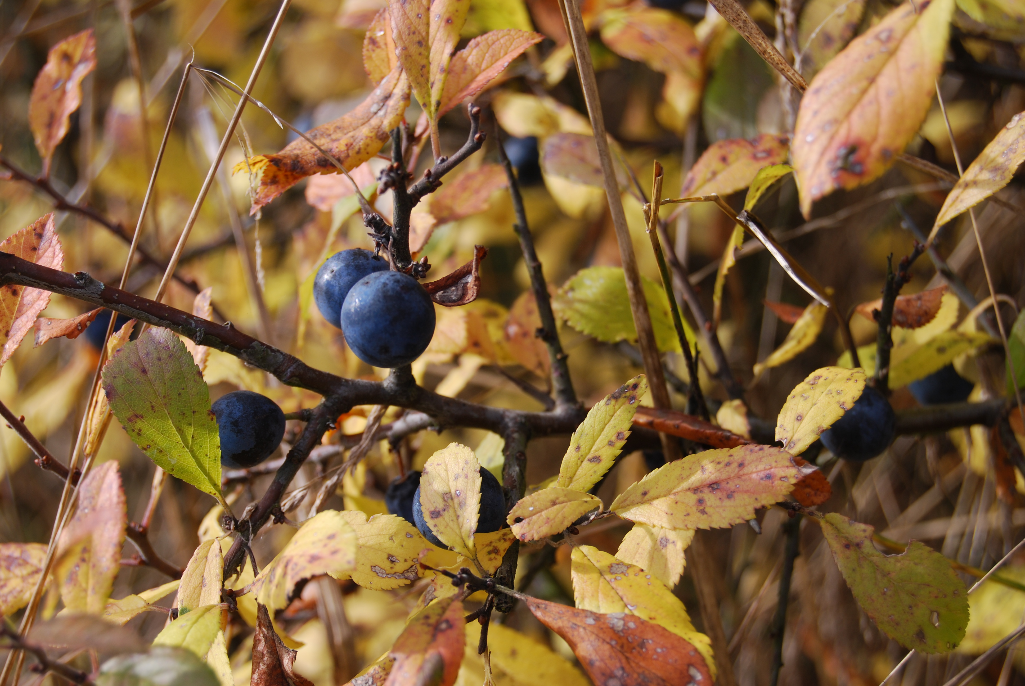 Prunus spinosa.